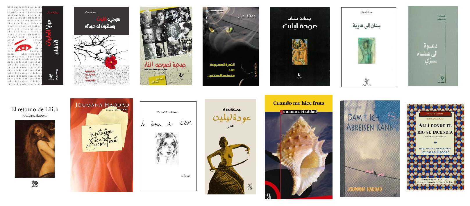 Some books of Joumana Haddad.